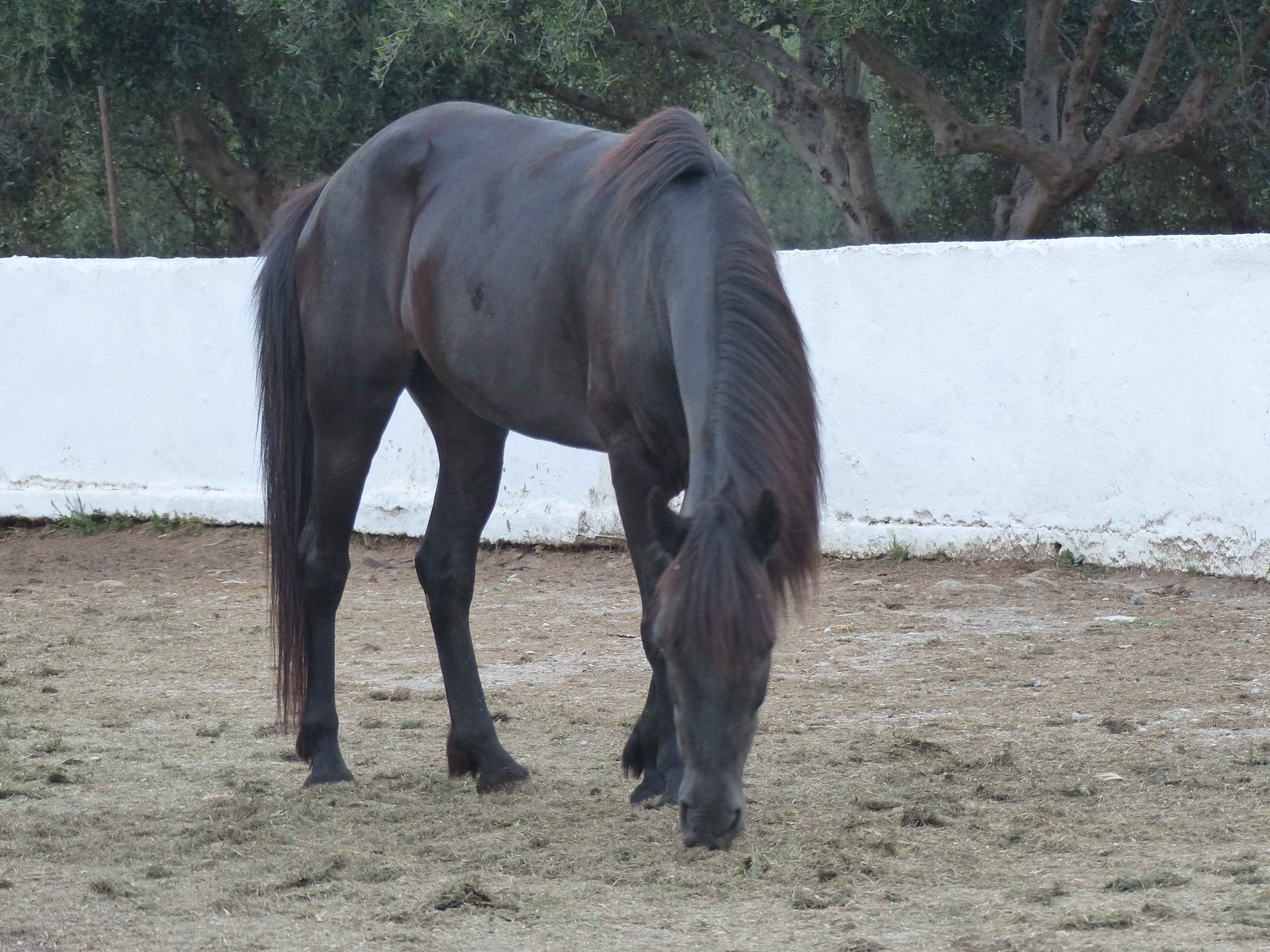 Black Cretan horse at Georgioupoli, Grillos stables